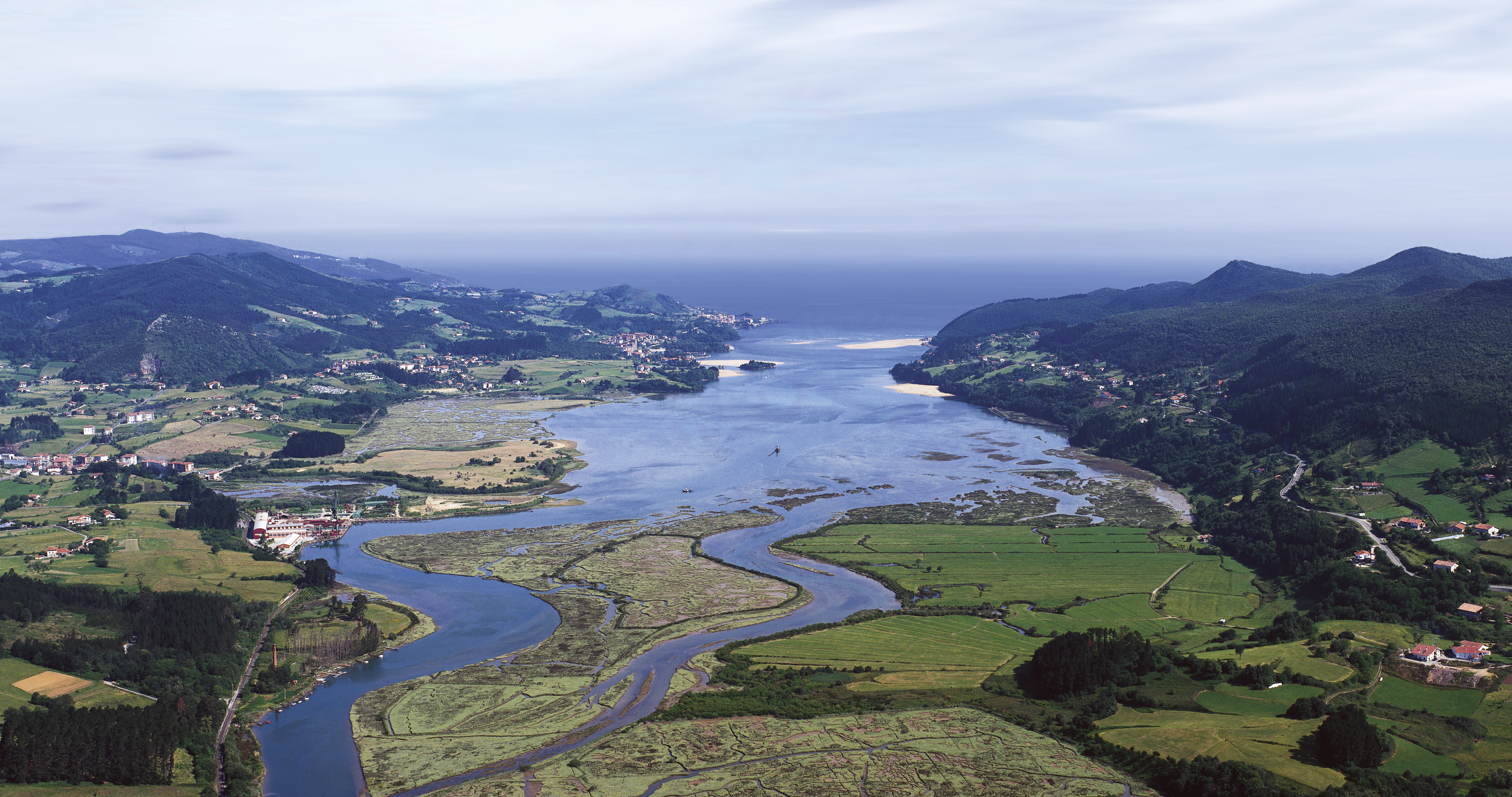 Aerial view of Urdaibai. Bizkaia, Basque Country.